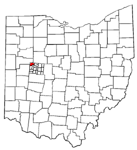 Adapted from Wikipedia's OH county maps. Created by SwissCelt.